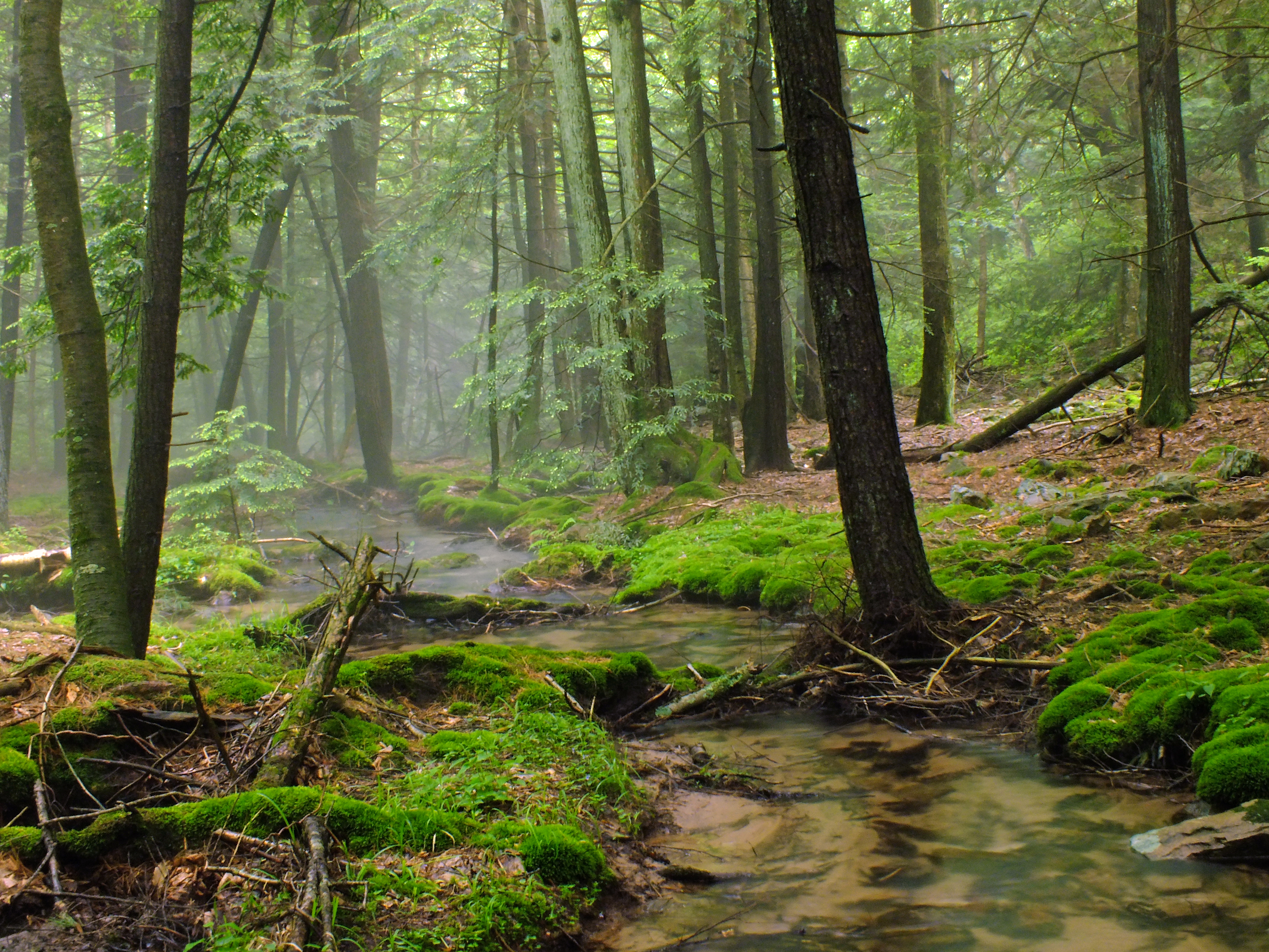 Panther Run, Union County, within the Hook Natural Area of Bald Eagle State Forest. The natural area protects 5100-plus acres of mountainous, heavily forested land.